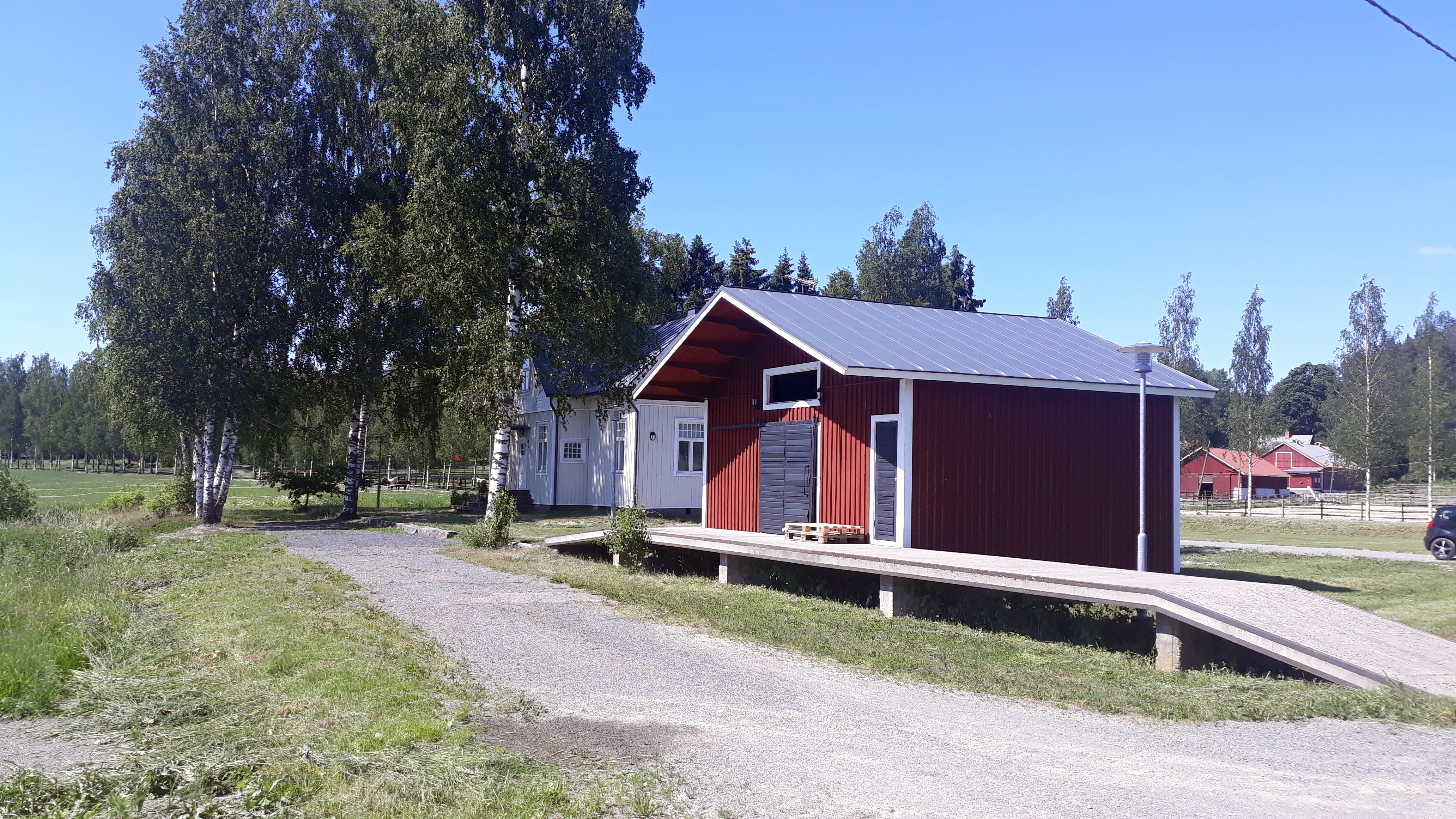 The platform of disused Kytäjä railway station in Hyvinkää. The station building can be seen in the background.